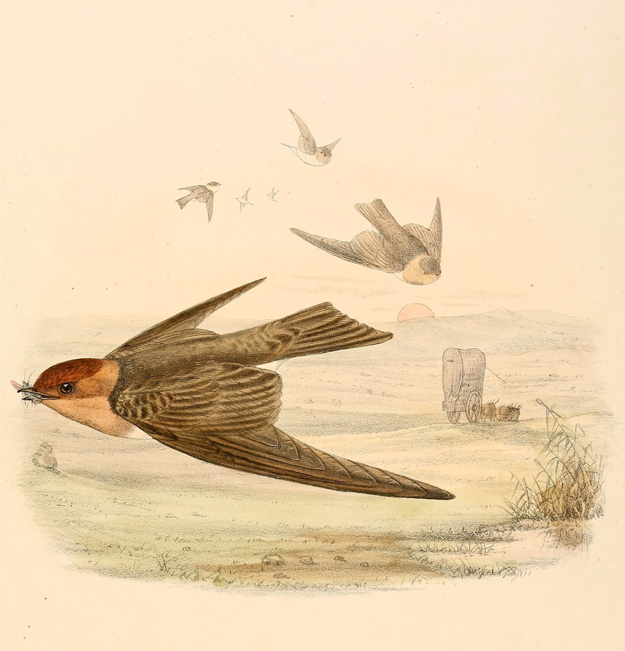 « Atticora fucata » = Alopochelidon fucata (Tawny-headed Swallow)